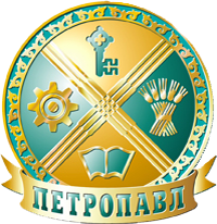 Seal of Petropavl (taken from Russian Wikipedia ?????????????_????.png)